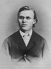 Nietzsche in his younger days